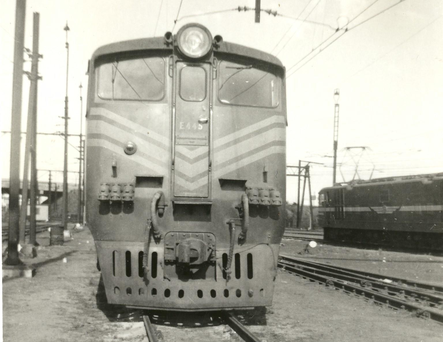 SAR Class 5E1 Series 1 E445 Builder's Number: MV 1113 Location: Salt River, Cape Town